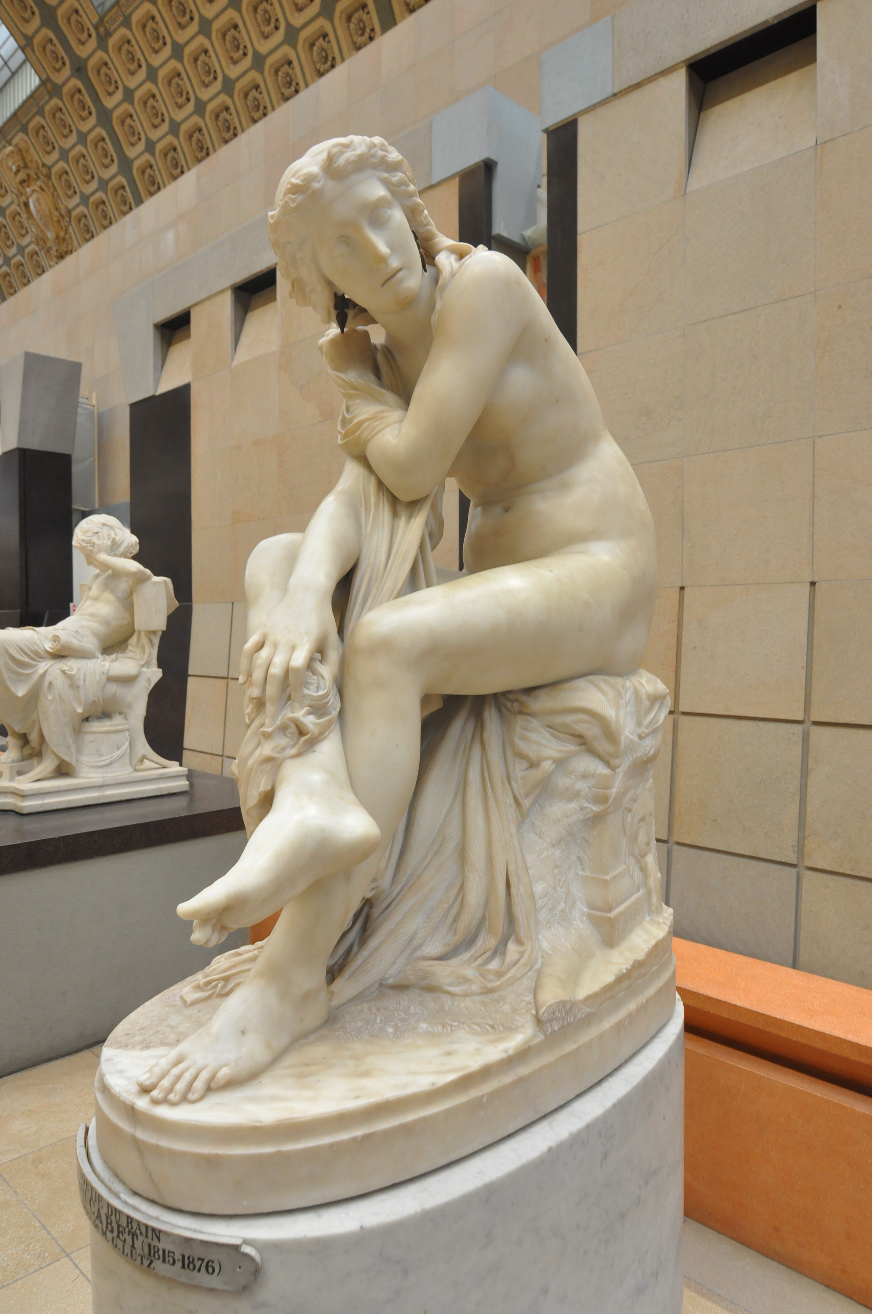 Musée d'Orsay in Paris, 7th arrondissement, France.